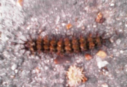 I know it is a crappy picture but I took it with my cell phone camera when my real one died. My best guess is Polygonia interrogationis, appropriately named the Question Mark. Blogged about at FieldMarking